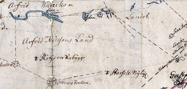 Part of map from 1758, showing the southernmost "lappskatteland" (Sami tax land) in Sweden, Arvid Nilssons land or Stensundslandet.